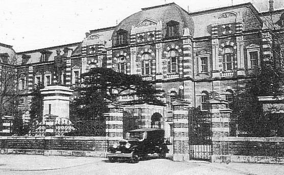 Japanese Navy Ministry building